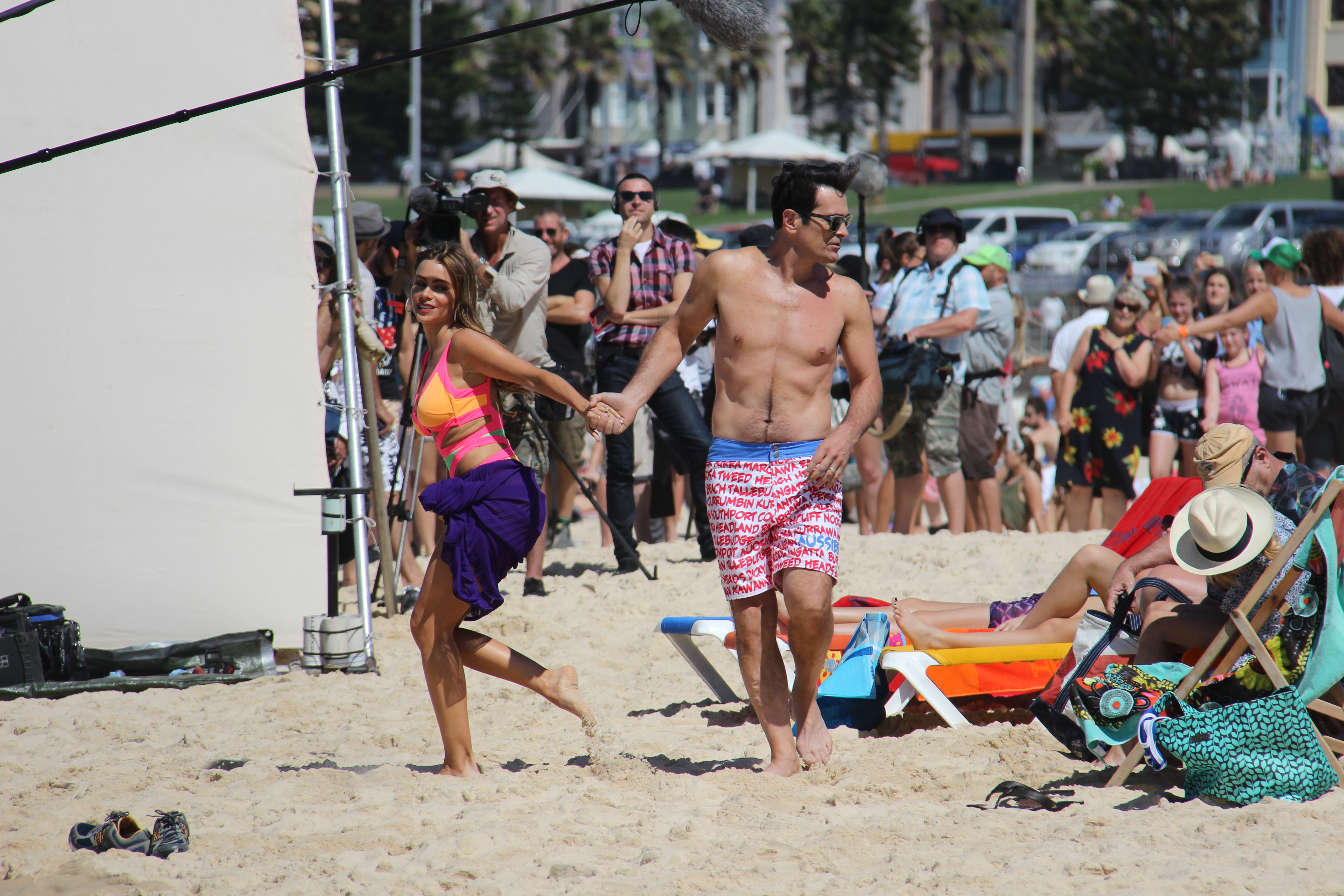 Modern Family filming on Bondi Beach, Sydney, Australia